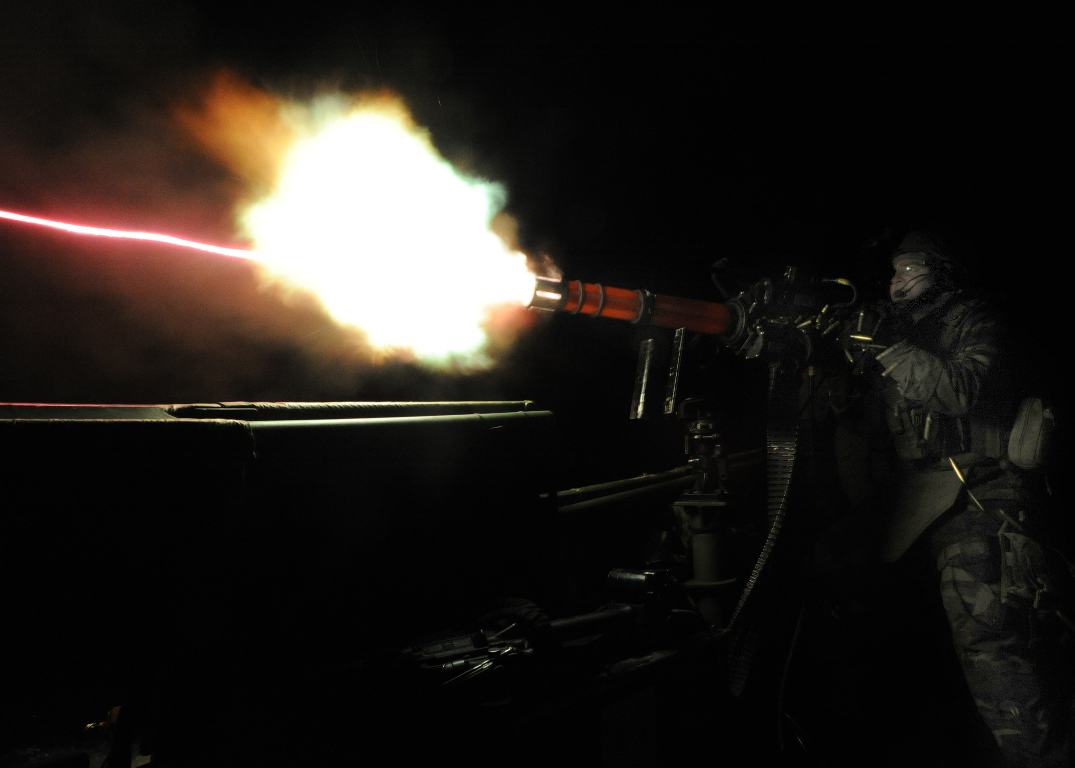 FORT KNOX, Ky. (March 29, 2010) Gunner's Mate 3rd Class Geoffrey Martin, assigned to Riverine Squadron (RIVRON) 1, fires a GAU-17A gun from the bow of a riverine assault boat during live-fire battle drills. The squadron is participating in a three-day field exercise to prepare for an upcoming deployment. (U.S. Navy photo by Mass Communication Specialist 3rd Class Bryan Weyers/Released)